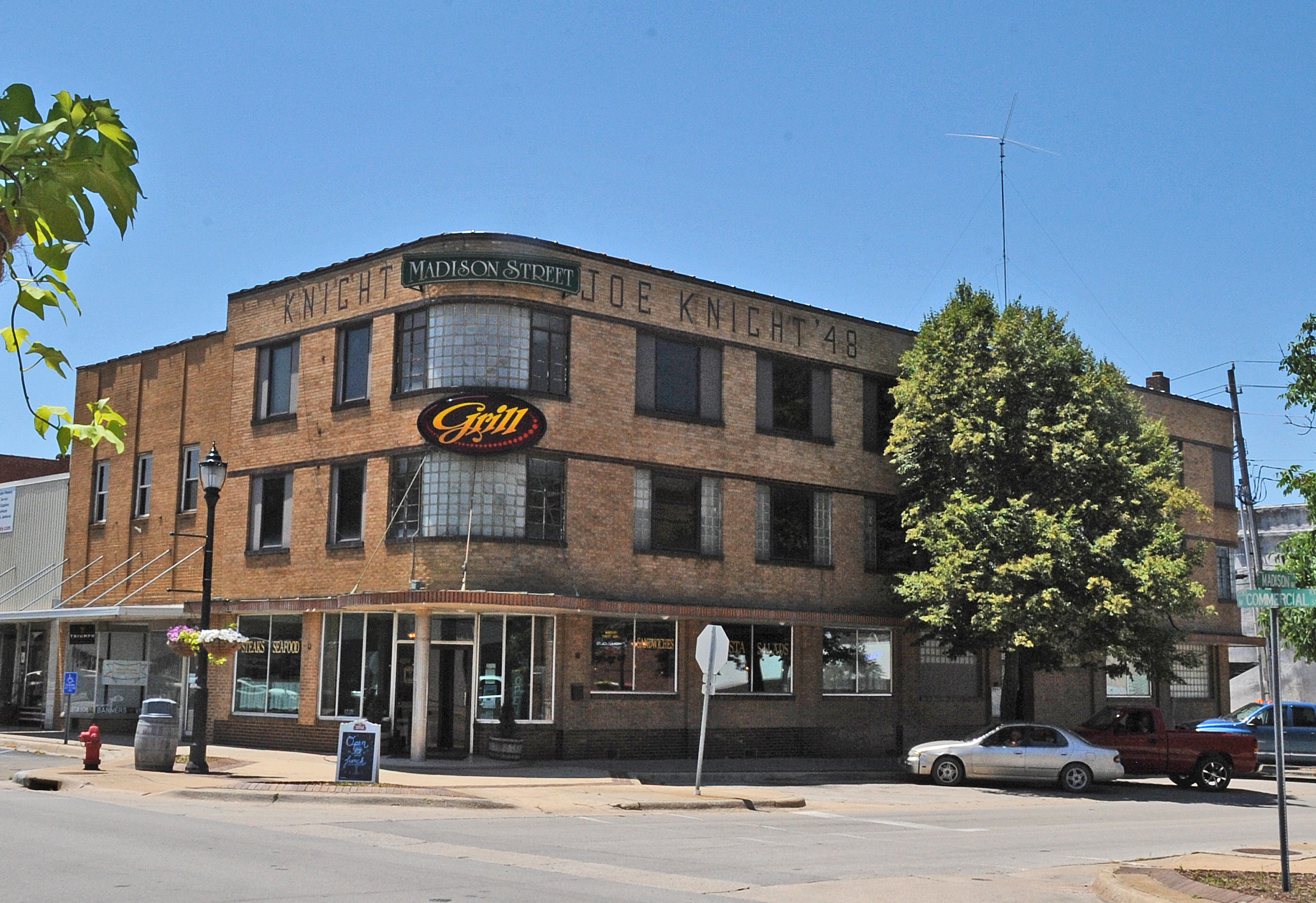 BUILT IN 1948 AS AN EXAMPLE OF STREAMLINE MODERNE CONSTRUCTION; IT IS LOCATED IN THE COMMERCIAL DISTRICT OF LEBANON AND NOW HOUSES A RESTAURANT